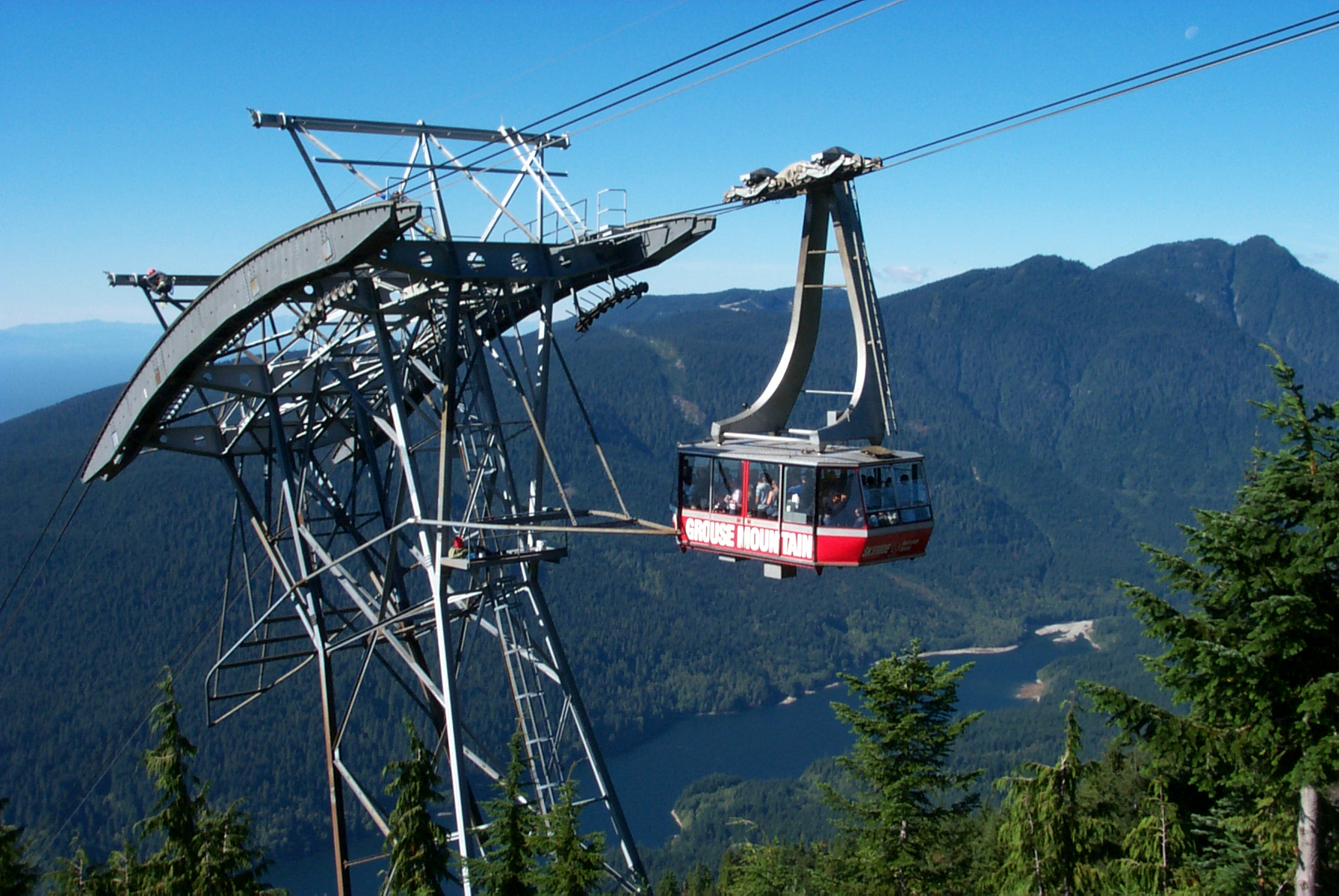 A gondola at Grouse Mountain. Photographed by User:Pburka, 2002.